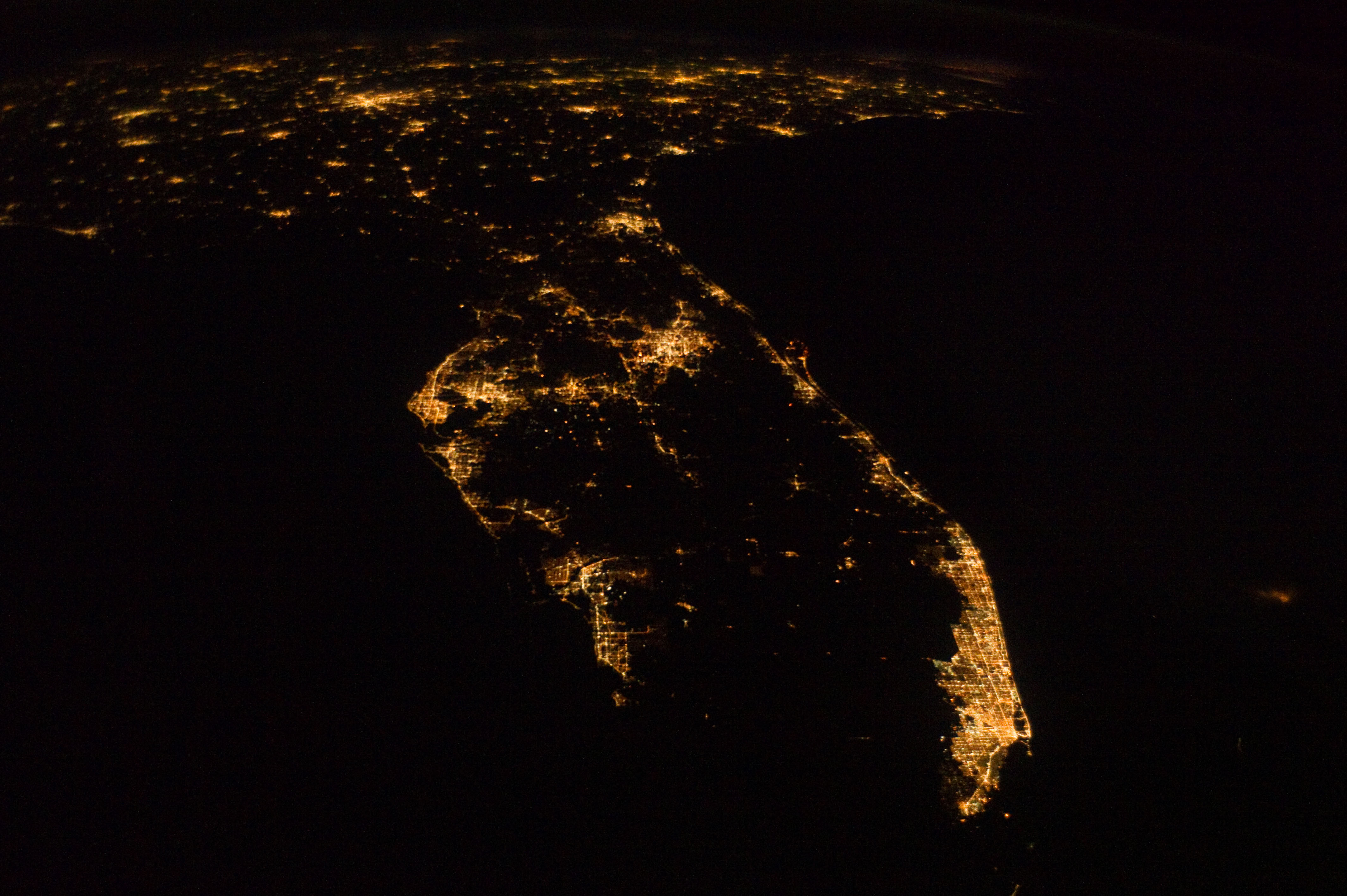 A satellite image of Florida as seen from space by NASA.